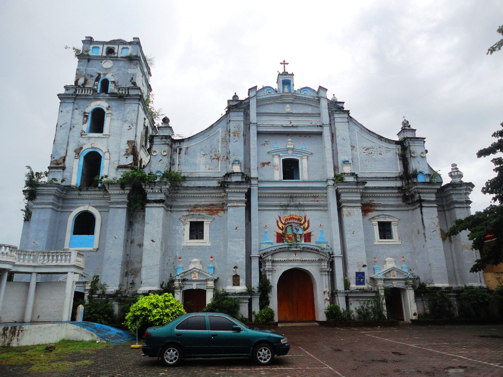 Ilocos Norte church